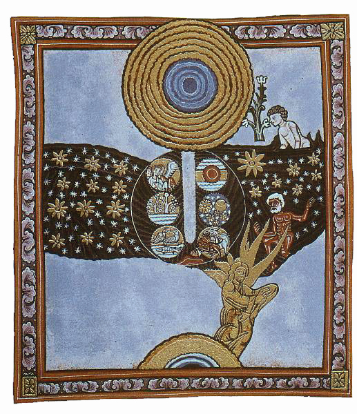 The Creation of the World in six days